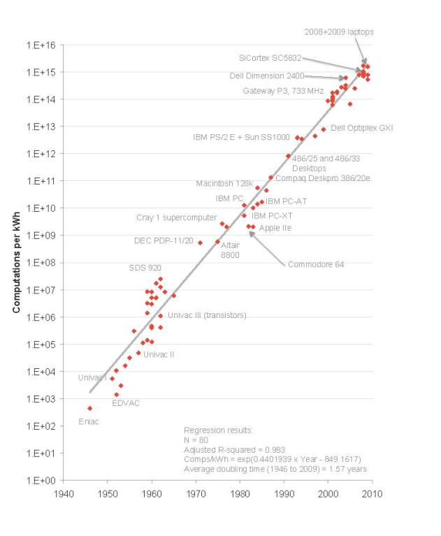 From author: "Graph of computations/kWh from 1946 to 2009 by Jonathan Koomey is licensed under a Creative Commons Attribution-NonCommercial-NoDerivs 3.0 Unported License. Permissions beyond the scope of this license may be available at